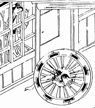 Katawaguruma (a flaming wheel with a man's head in the center, which sucks out the soul of anyone who sees it) from the Shokoku Hyakumonogatari